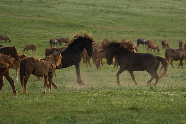 Manych River - wild don horses